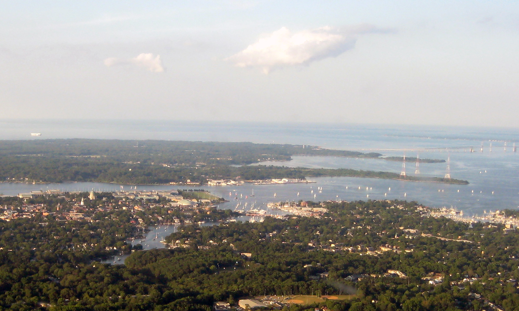 Aerial view of Annapolis, Maryland, Chesapeake Bay, and Chesapeake Bay Bridge.